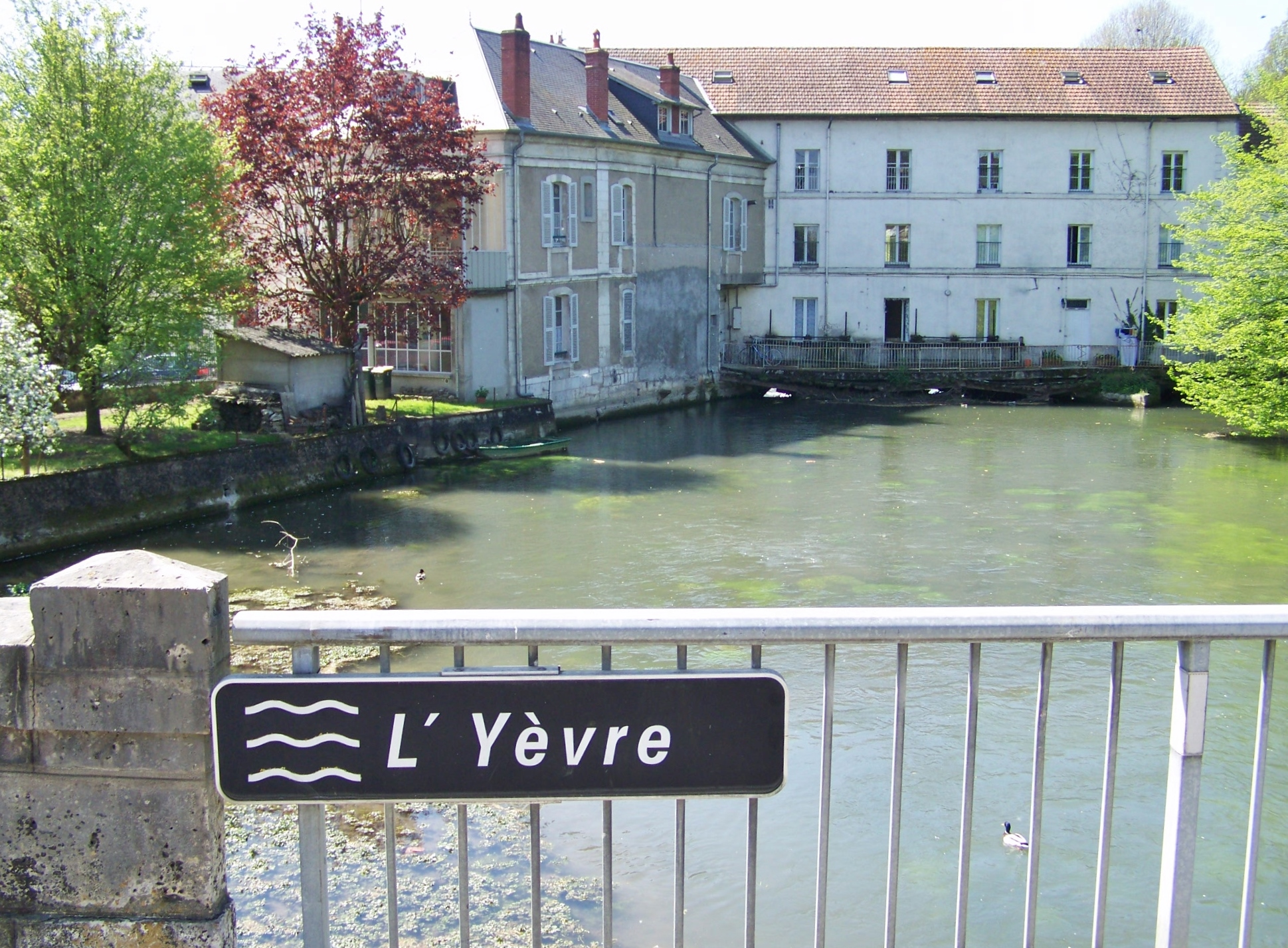 Sight of the Yèvre river, in Bourges, Cher, France.